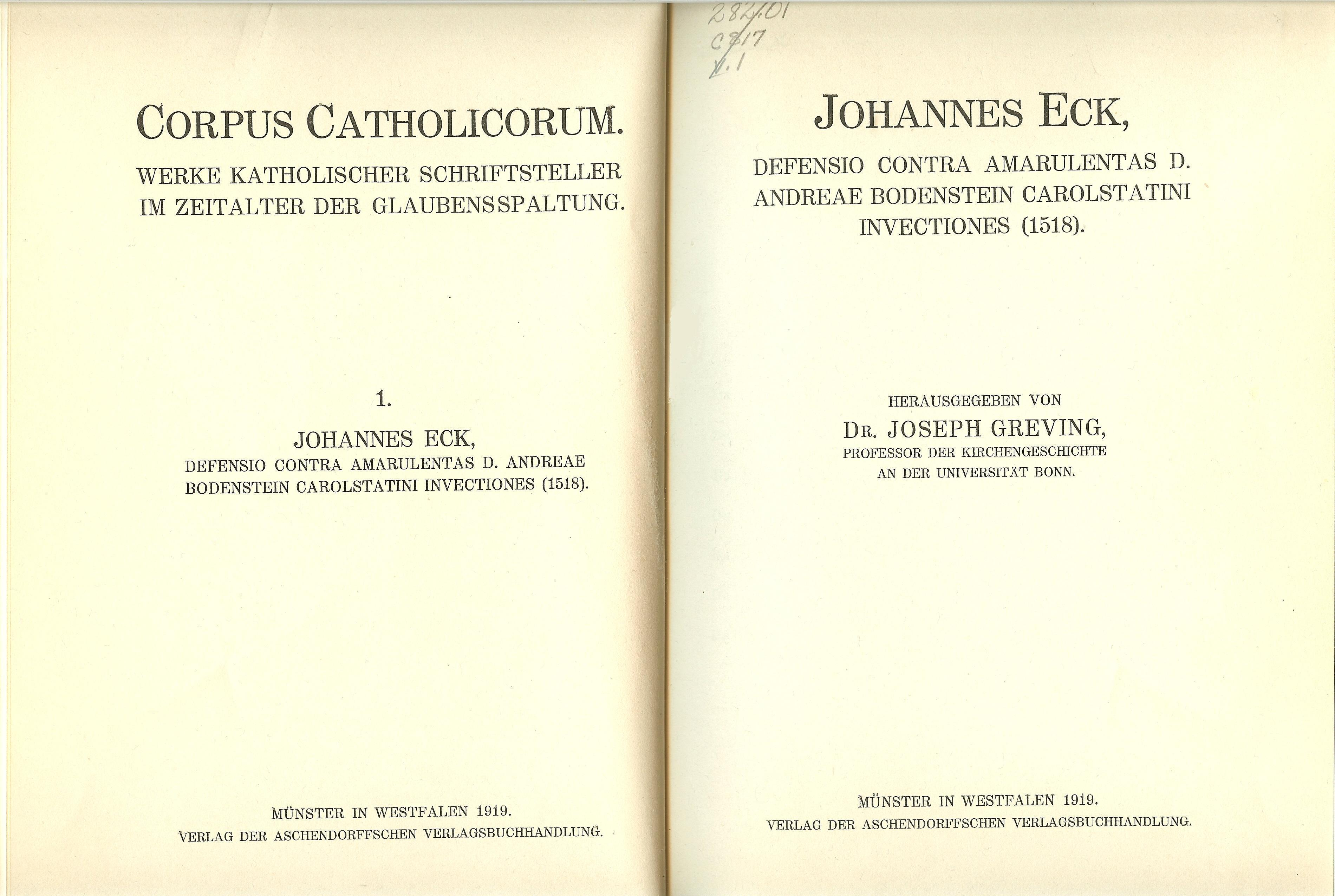 Title pages scanned from volume 1 of the series, Corpus Catholicorum.